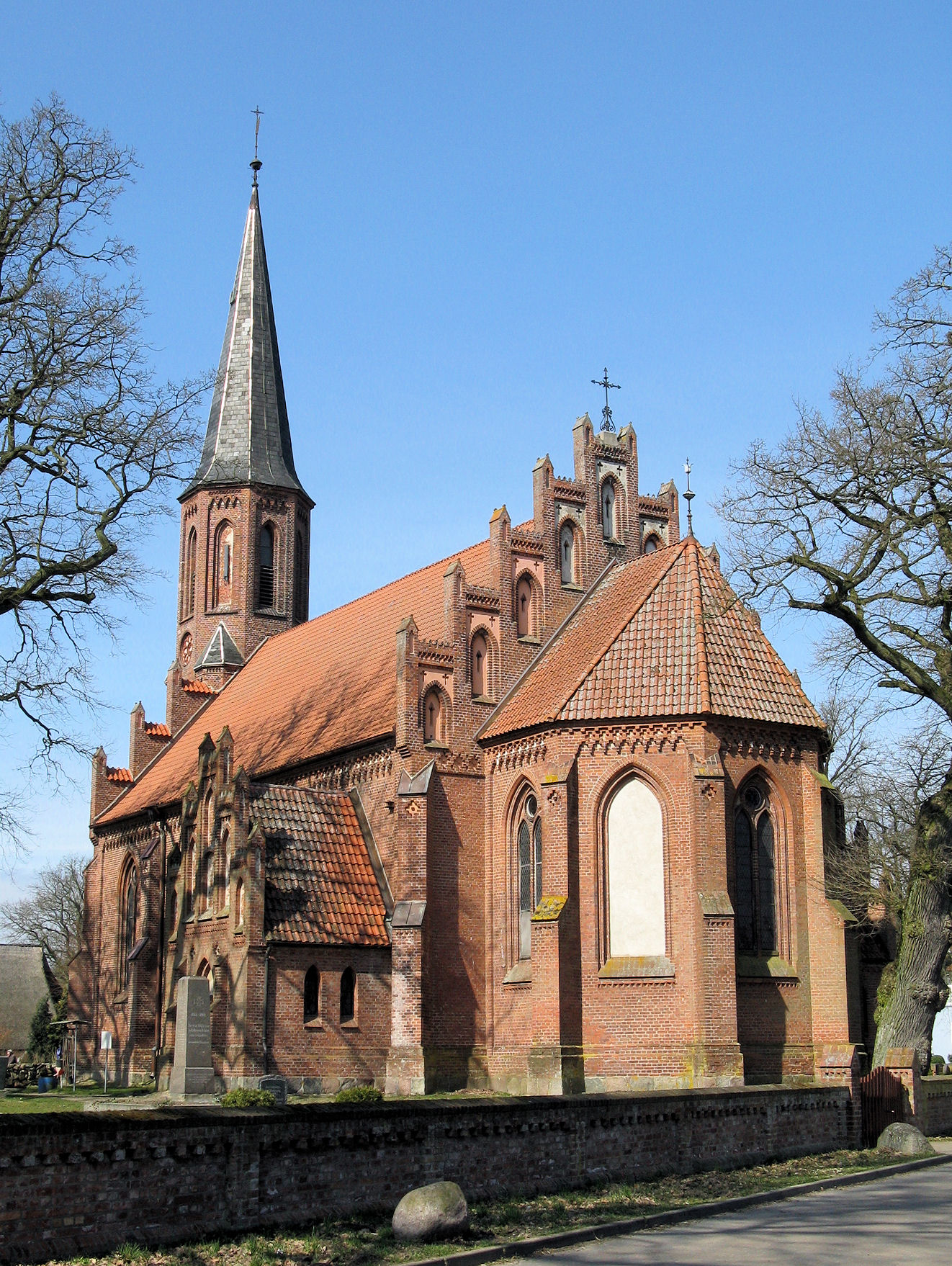 Church in Banzkow, district Ludwigslust-Parchim, Mecklenburg-Vorpommern, Germany